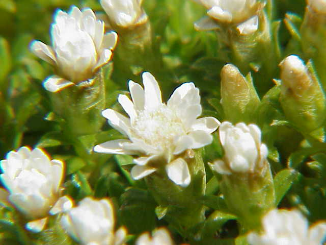 Species: Raoulia glabra Family: Asteraceae Image No. 2